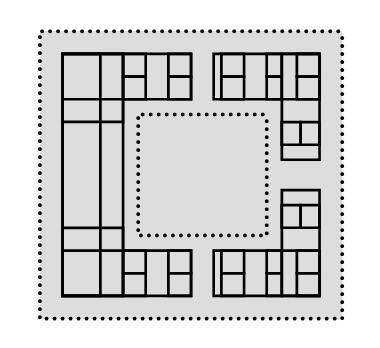 Floor plan of the Leonidaion at Olympia, Greece.